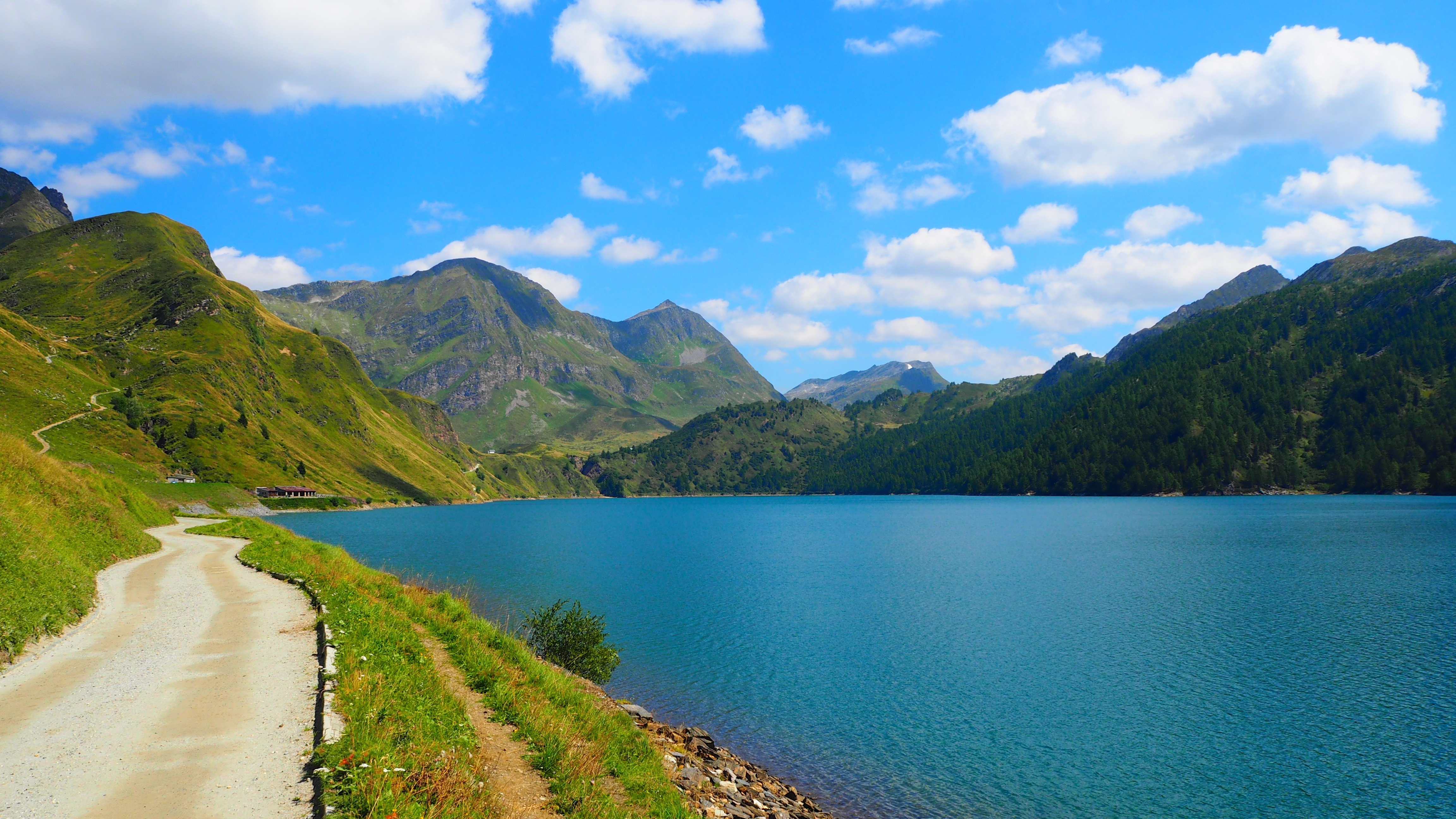 Lake Ritom with Val Piora, Switzerland